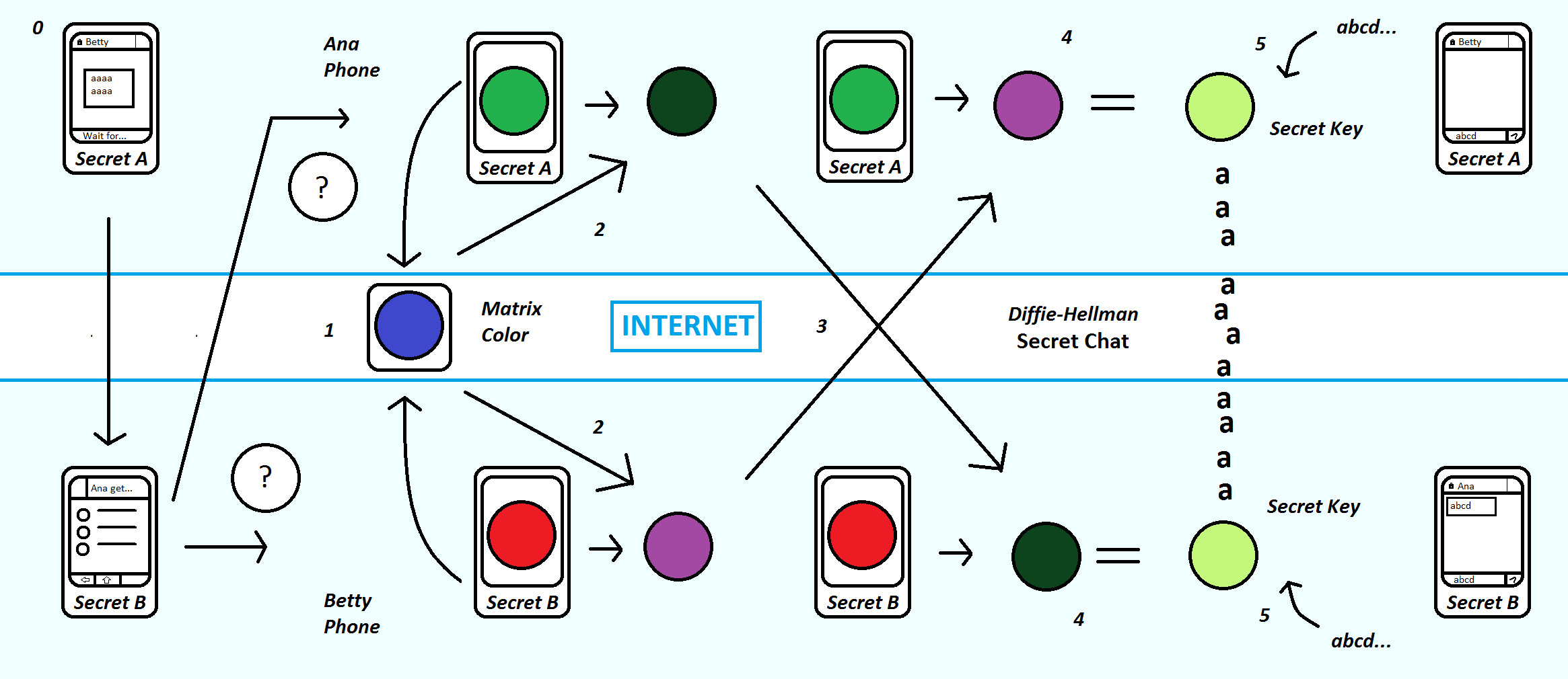 Explanation of secret chats, included in Telegram, using the keys of the devices, then share the code modified for use as single key encryption and locally synchronized. Source of explanation